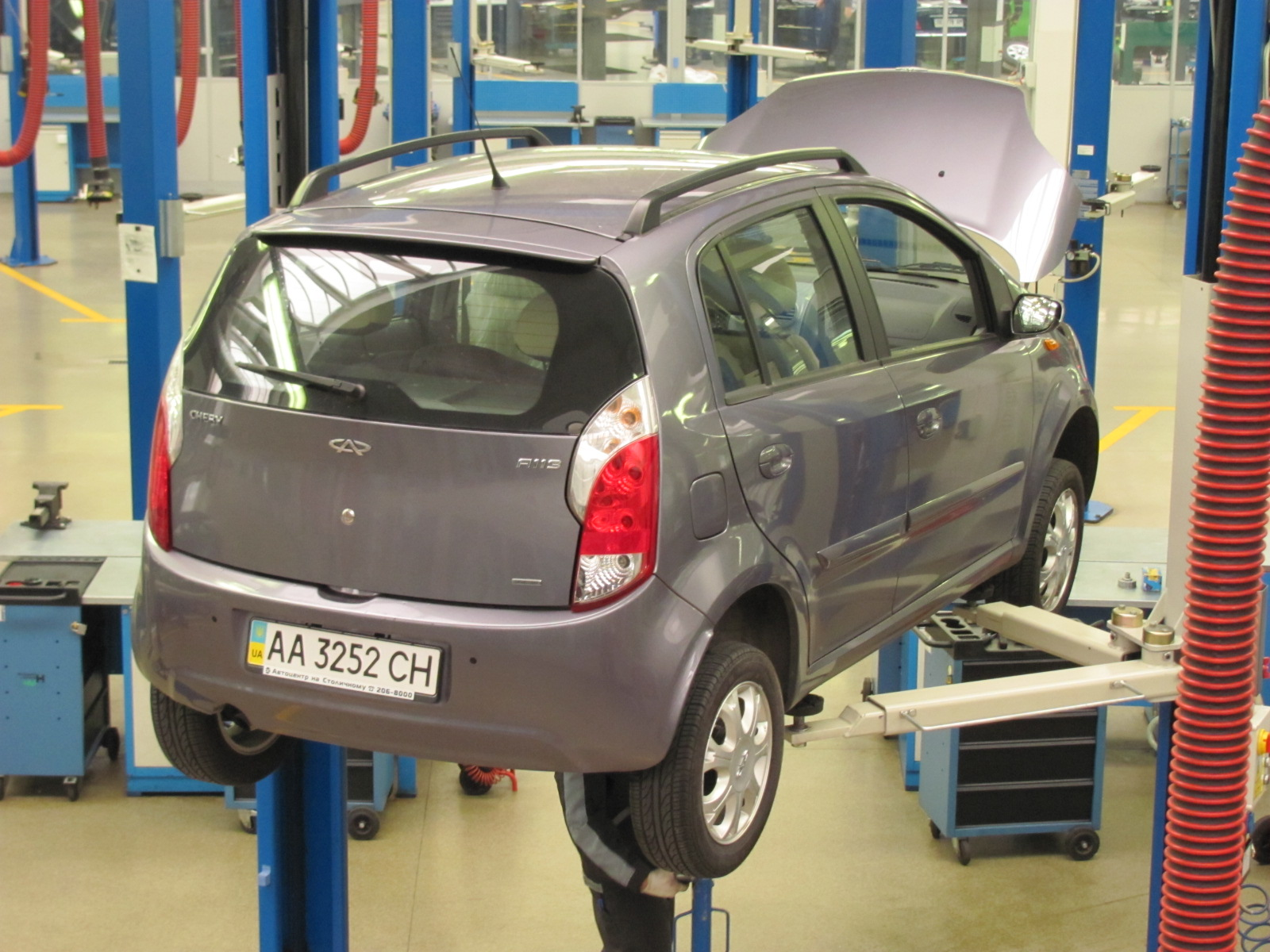 Chery A1 - vehicle assembly line in Ukraine.